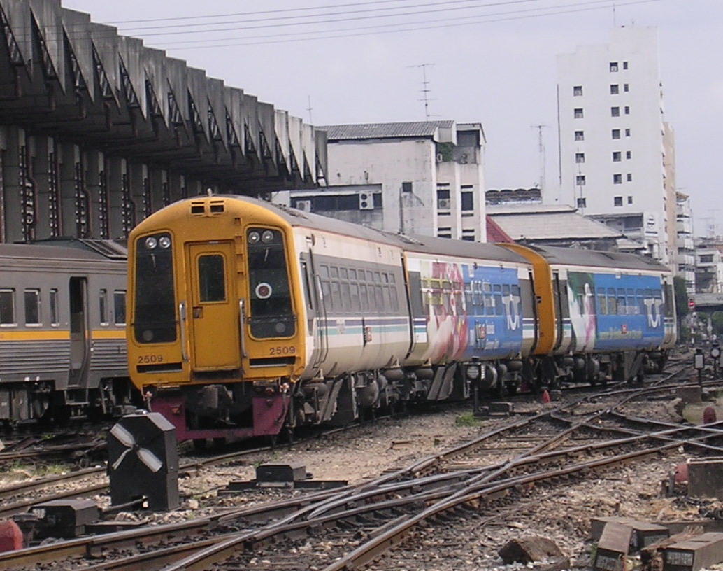 State Railway of Thailand's Class 158 Express Sprinter 2509.